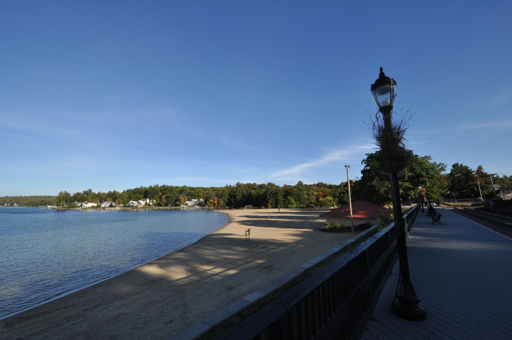 View of the beach at Weirs Beach, Laconia, New Hampshire. This area is part of the archaeologically sensitive area known as The Weirs.